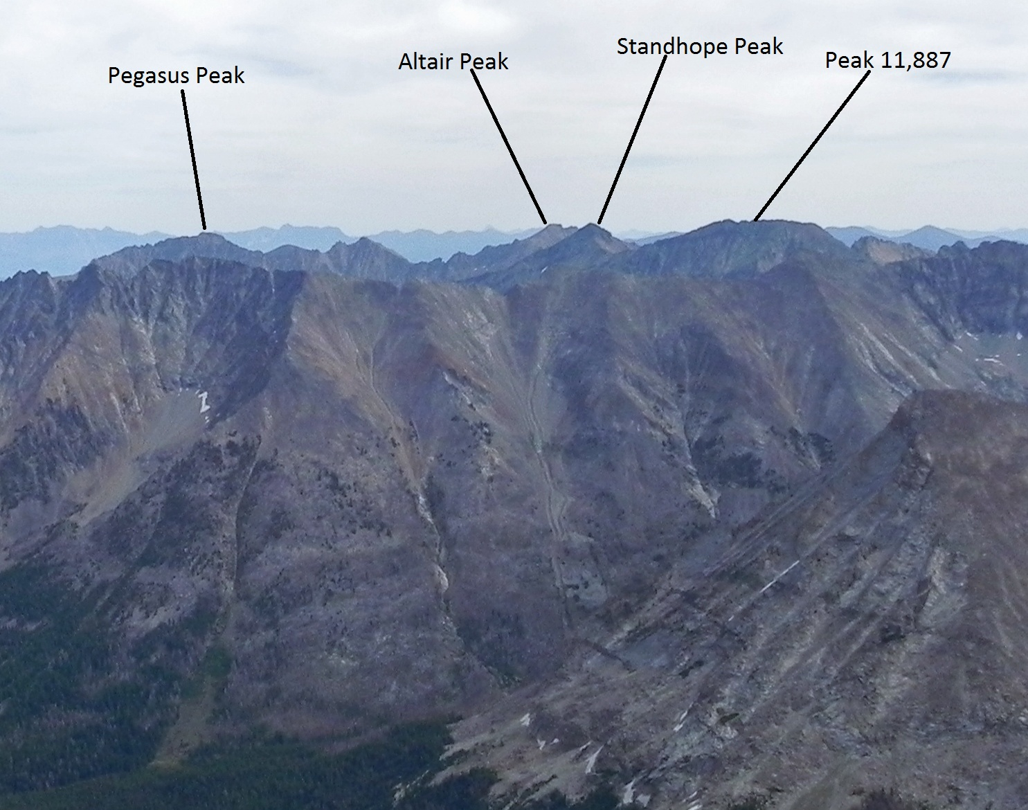 Altair Peak, Standhope Peak, Pegasus Peak, and Peak 11,887 (the Fin) in the Pioneer Mountains of Idaho viewed from the summit of Hyndman Peak.